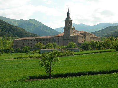 Monasterio de Yuso, San Millán de la Cogolla. Patrimonio de la Humanidad.